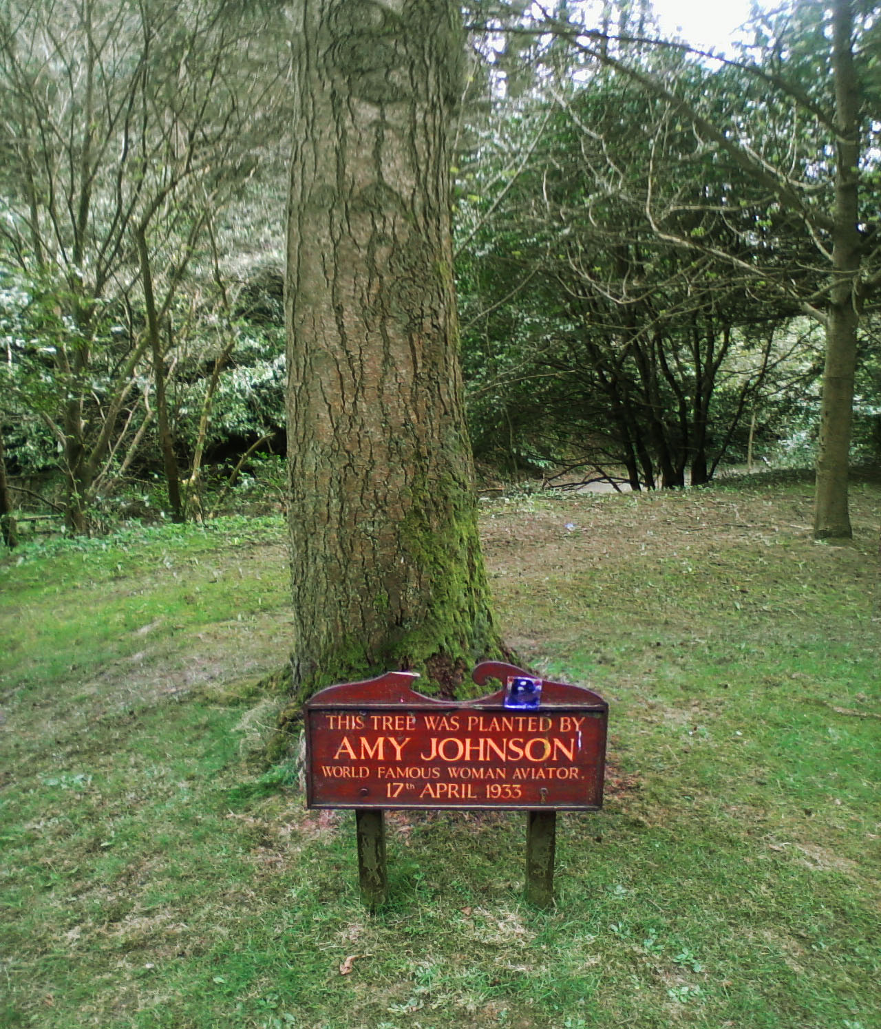 Tree near the mouth of Glen Helen, Isle of Man. The tree was planted in 1933 by Amy Johnson, the famous aviator.